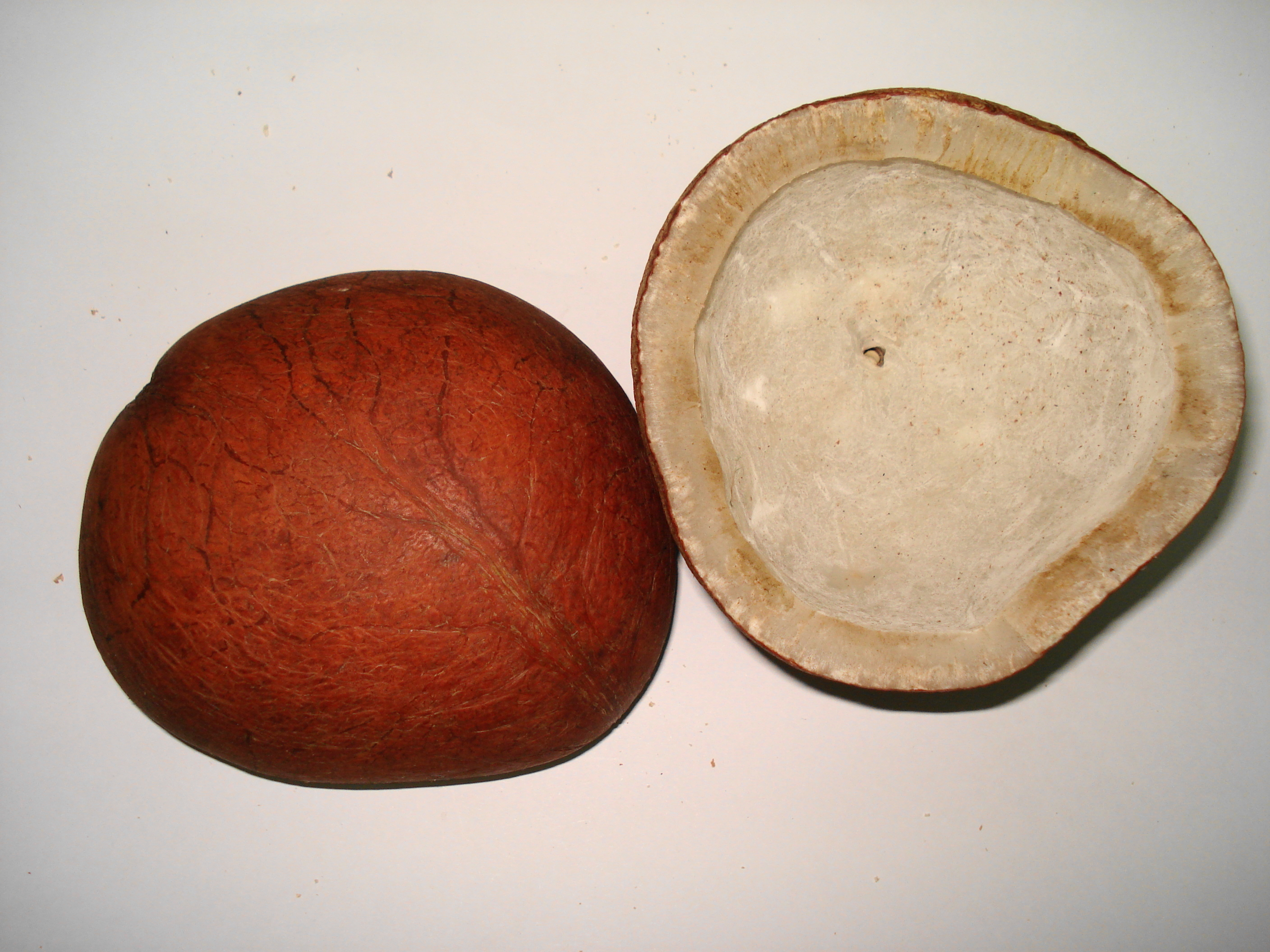 Khopra, used in south indian dishes